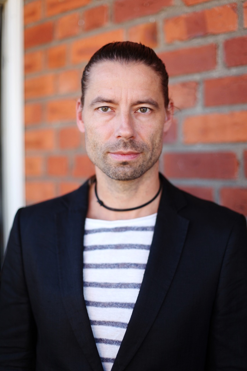 Portrait of the author Peter Fröberg Idling